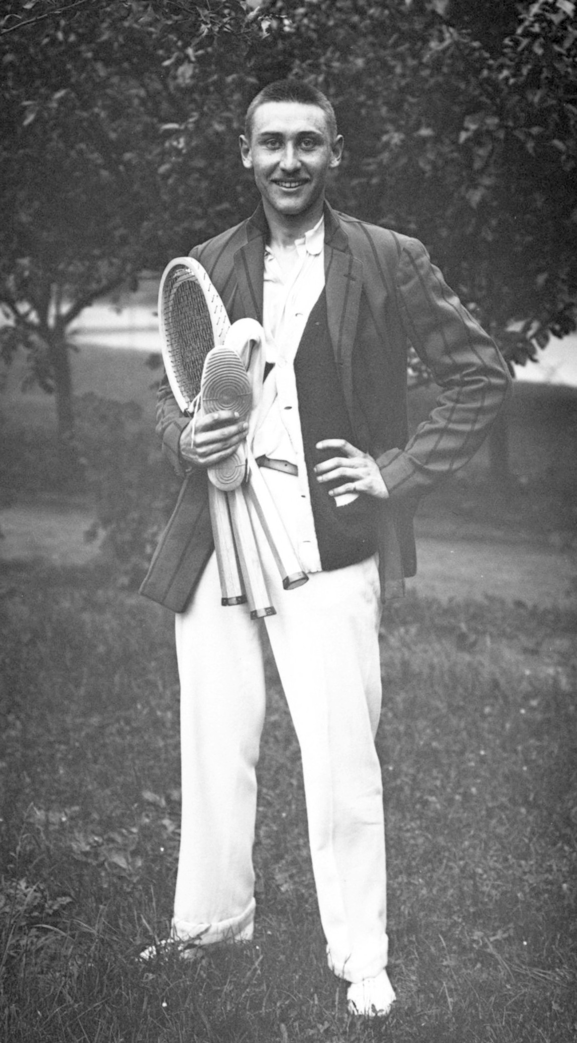 André Gobert, World Championships on Clay in Saint-Cloud 1913 (photographie de presse) Agence Rol